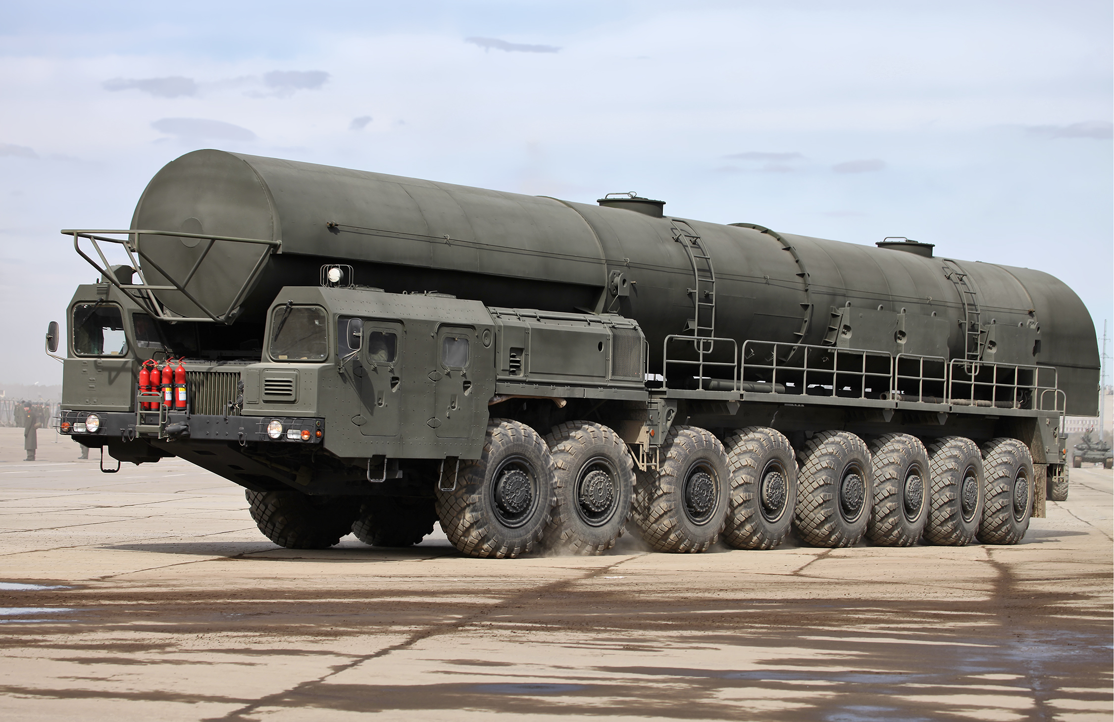 Combat support vehicle BMS - used for driver training